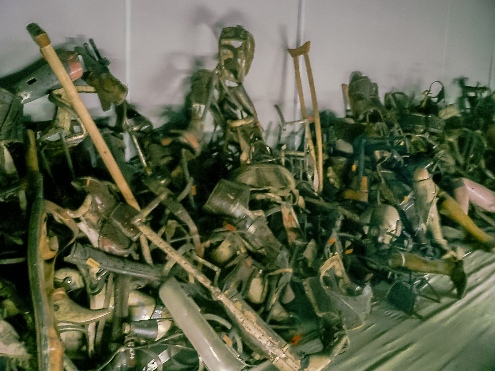 Auschwitz concentration camp, Poland